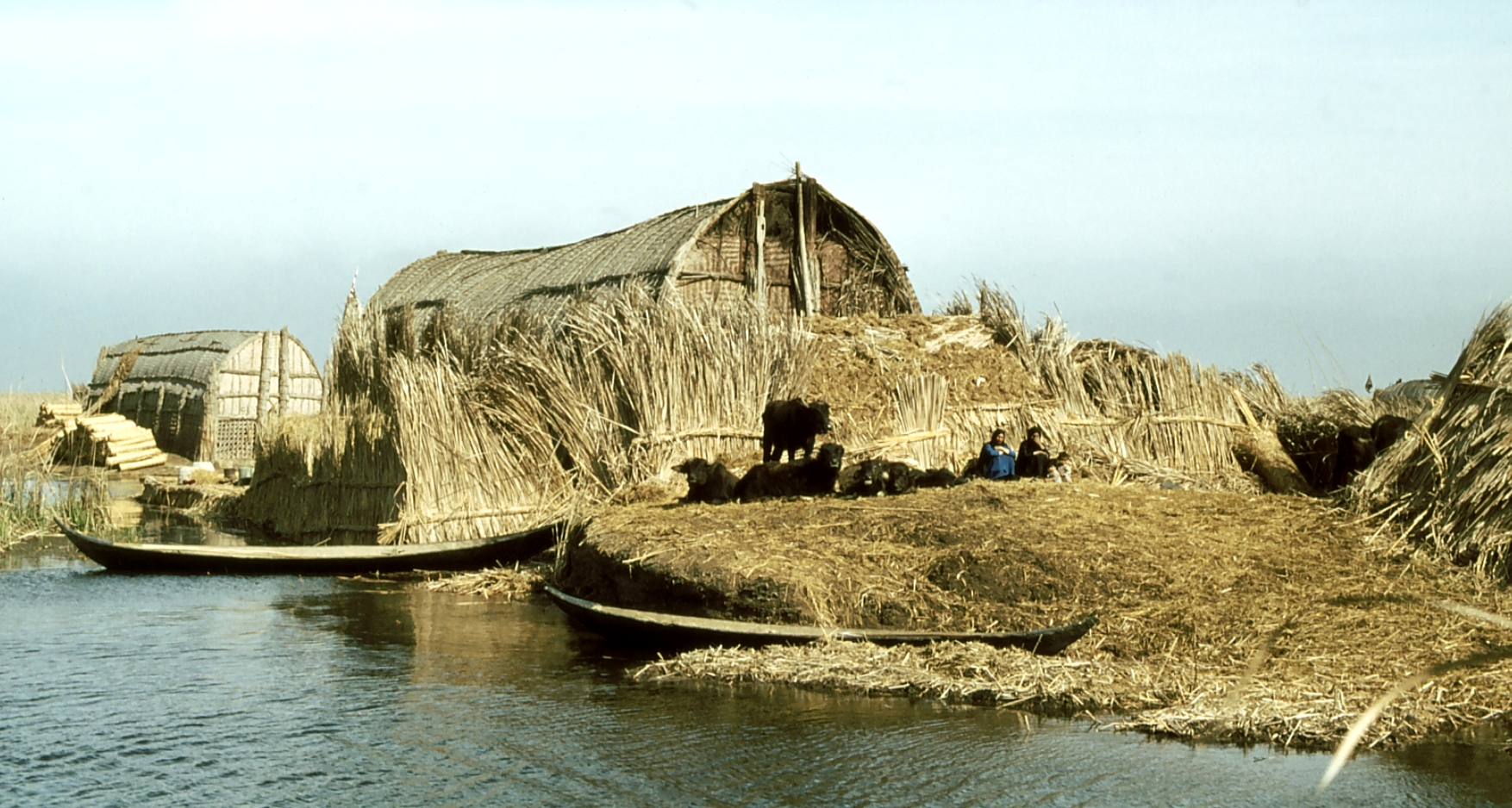 Reed houses, Iraq marshes 1978